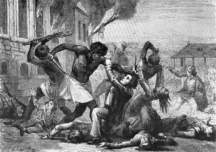 Haitian Revolution - Black slaves killing white slavers